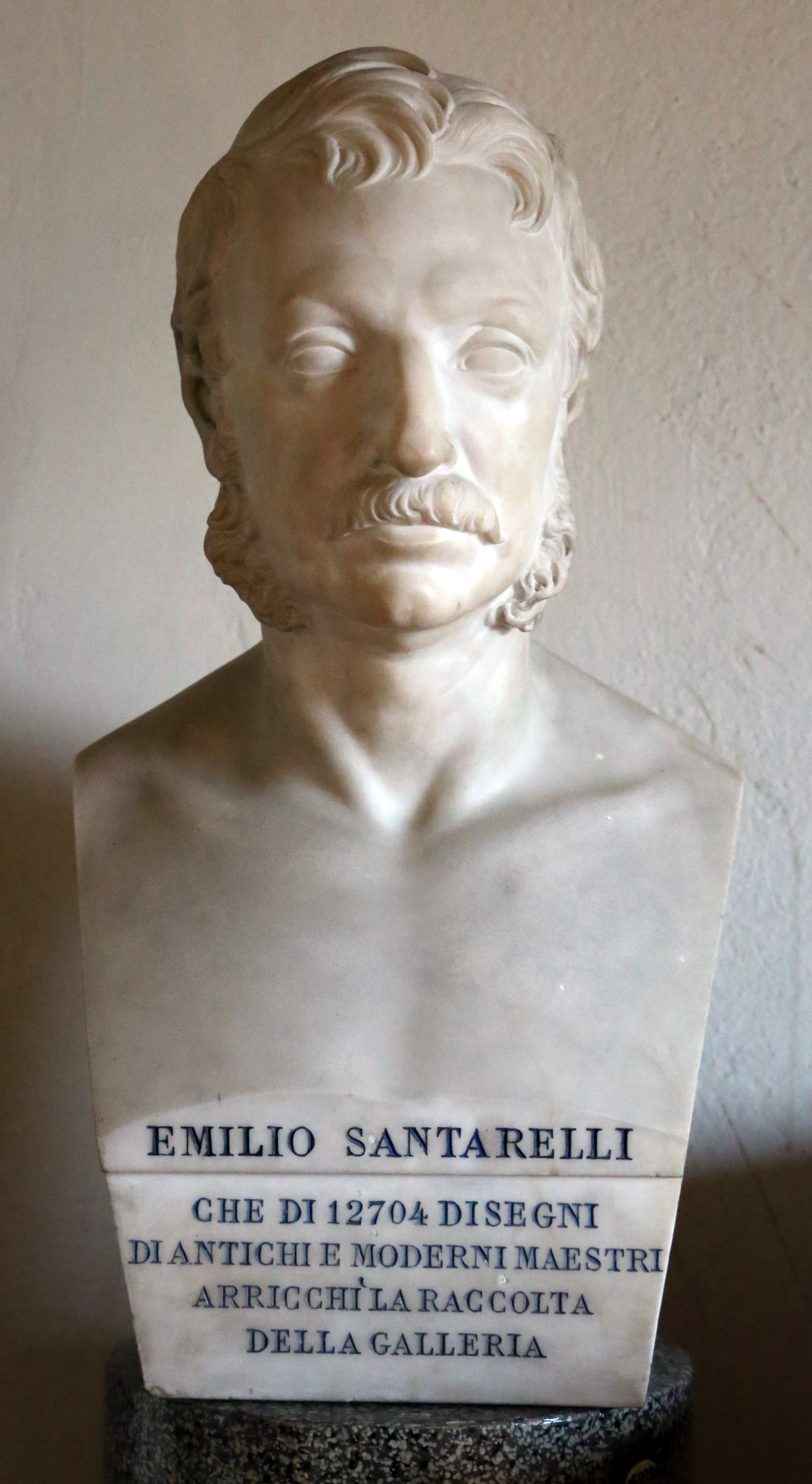 Emilio Santarelli